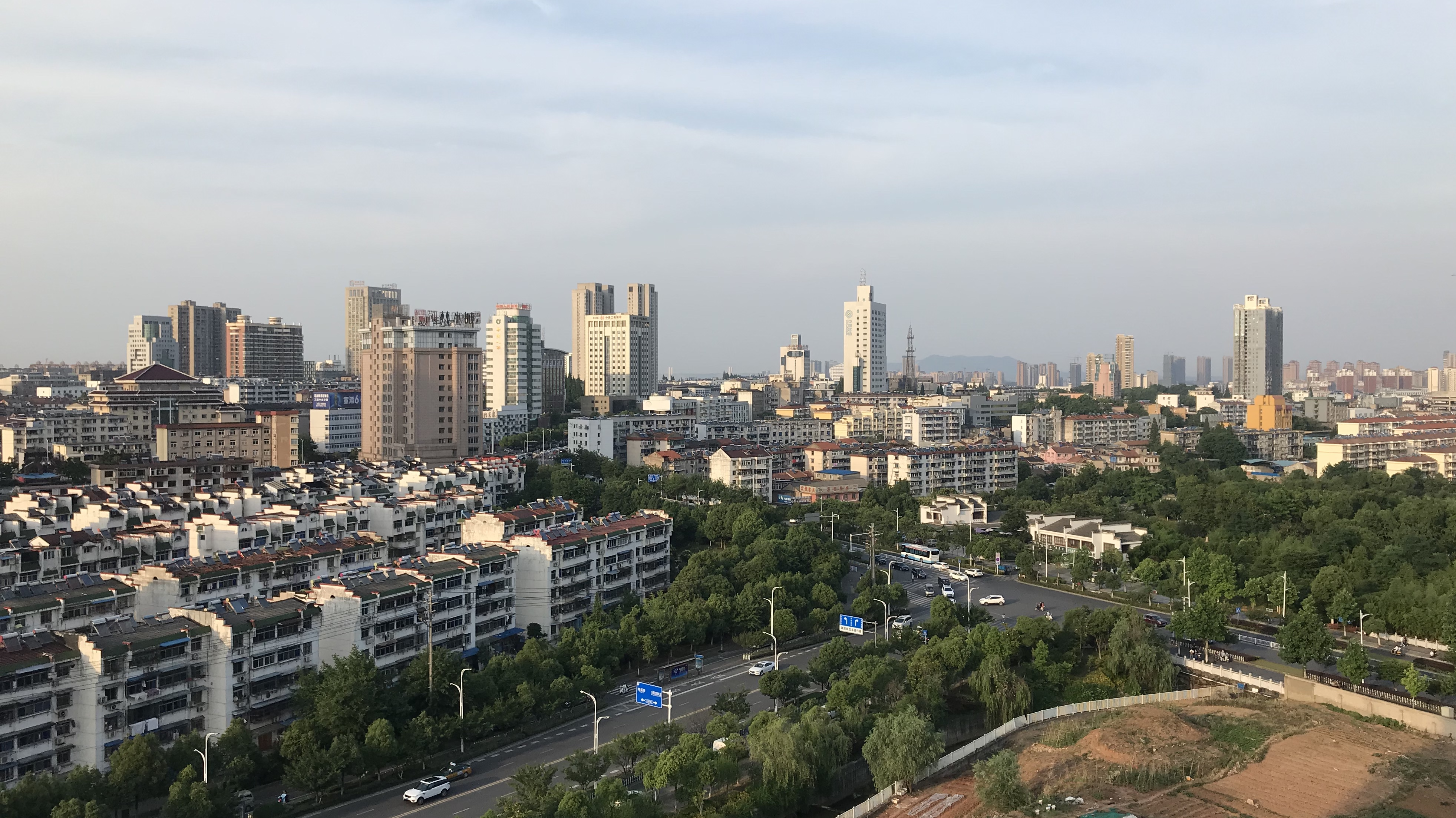 Skyline of Xuancheng City,Anhui province,China